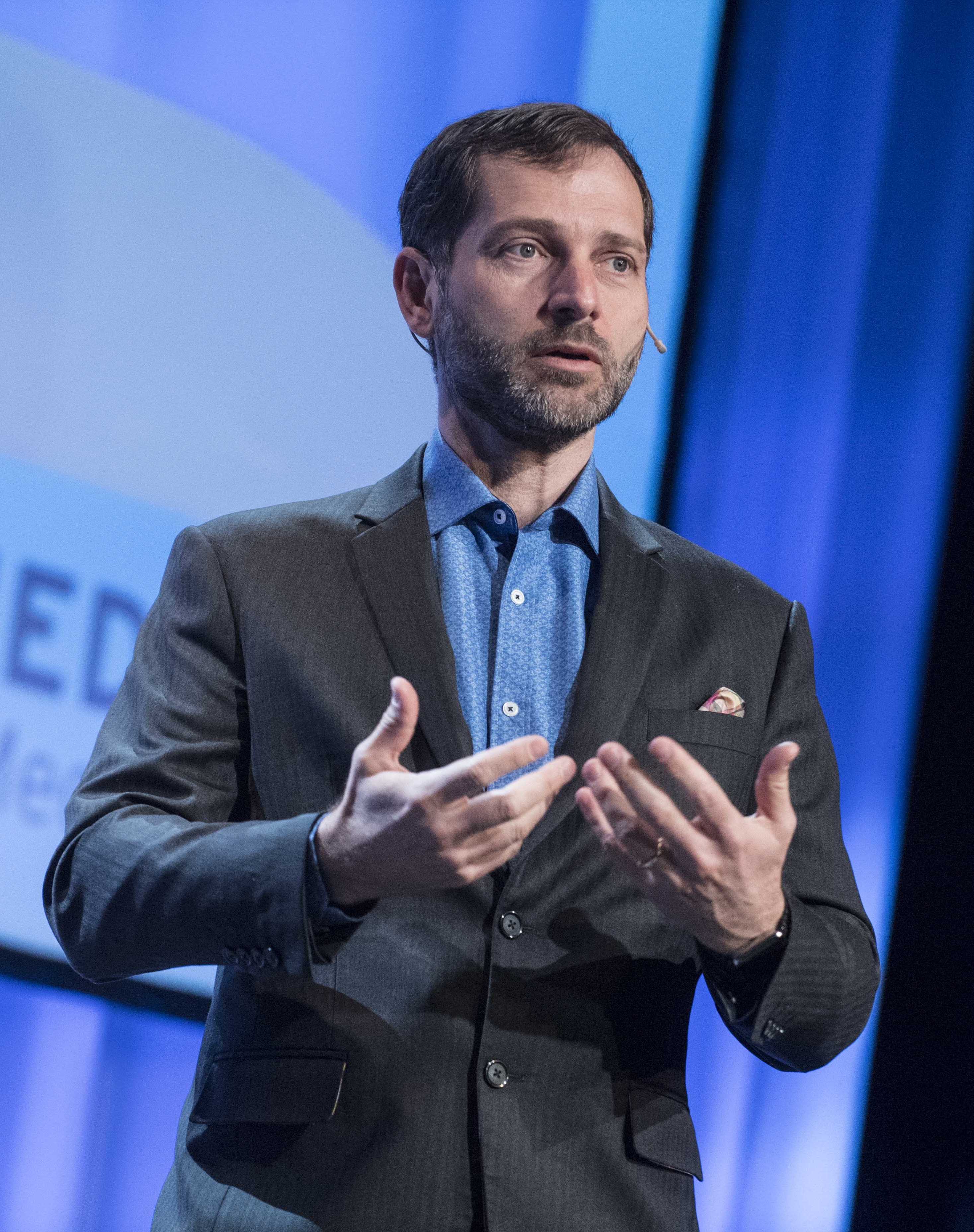 Teknologirevolusjonen whats next? Horace Dediu